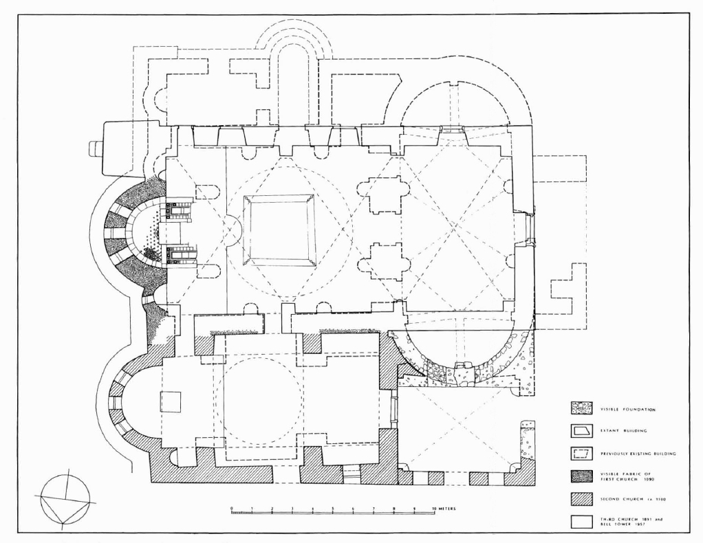 Koutsovendis, Cyprus, plan of Saint John Chrysostomos or Agios Ioannis Chrysostomos (Άγιος Ιωάννης Χρυσόστομος) showing phases of construction.